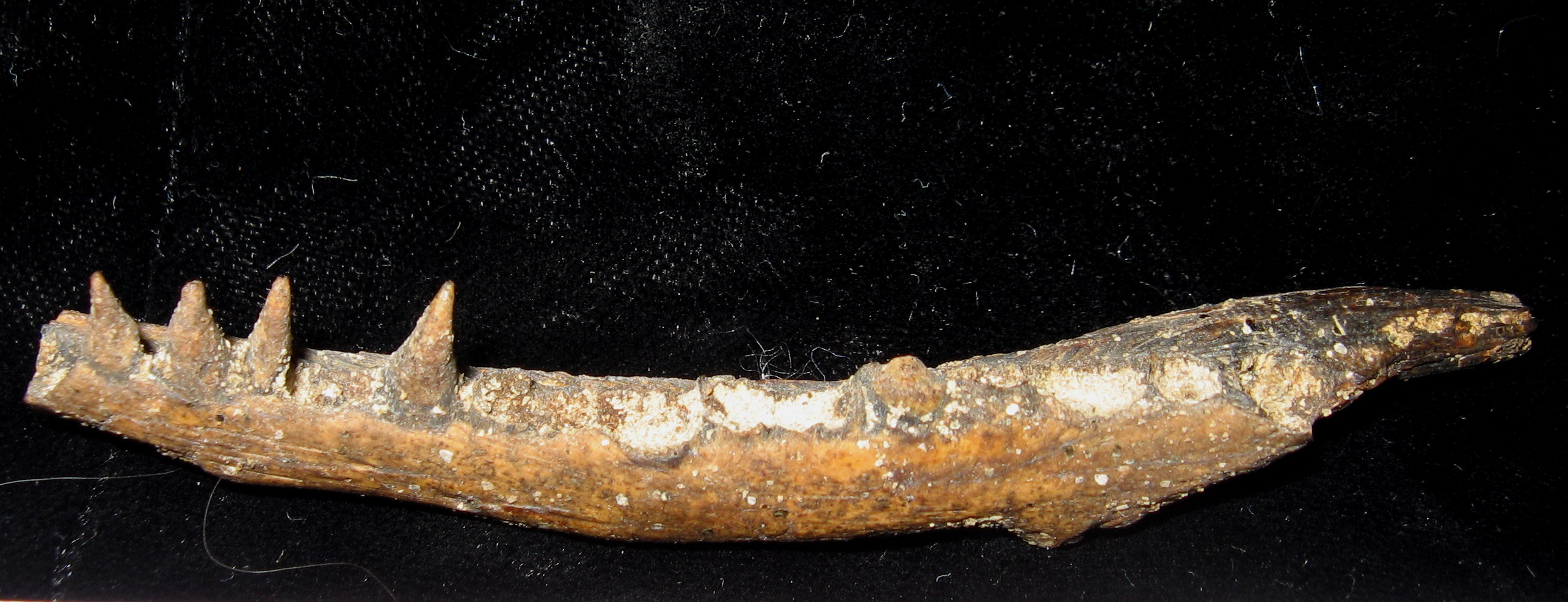 A 7.8cm partial jaw from the extinct freshwater trout Oncorhynchus (Rhabdofario) lacustris. Pliocene, Glenns Ferry Formation, Owyhee County, Idaho, USA